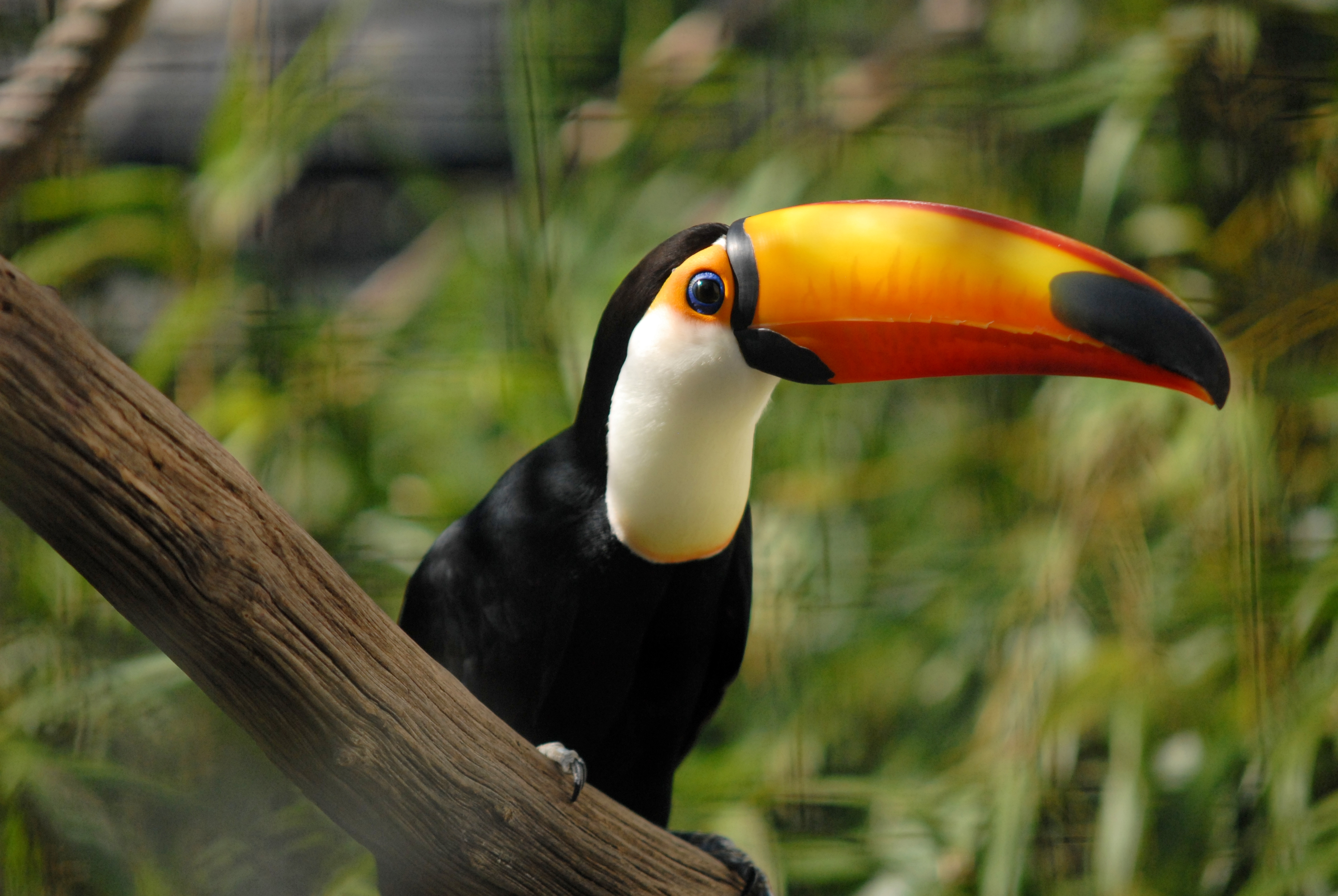 Toucan (Ramphastidae)